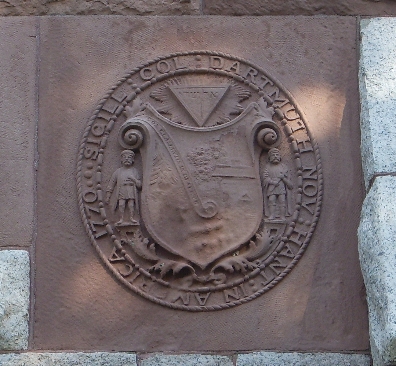 Photograph of the Seal of Dartmouth College on the exterior of Rollins Chapel at Dartmouth College in Hanover, New Hampshire.